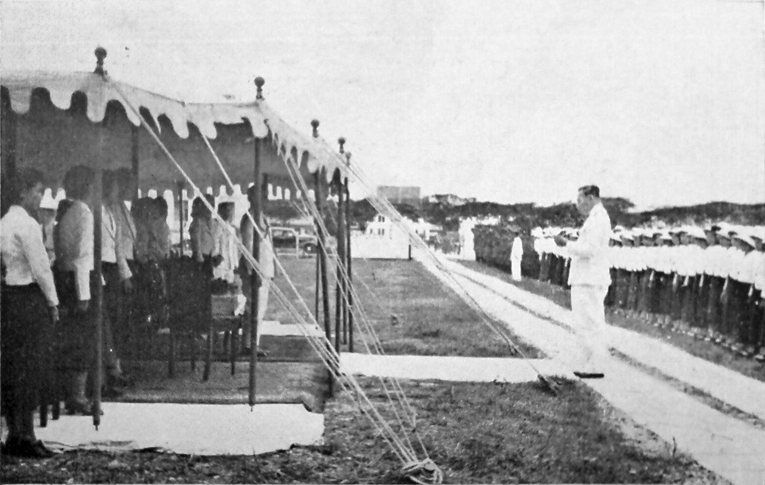 M.L. Pin Malakul, director of the Preparatory School of Chulalongkorn University (now Triam Udom Suksa School) addresses the Minister of Education during the opening ceremony of Triam Udom Suksa Building (now known as Building 2) on 24 June 1940.